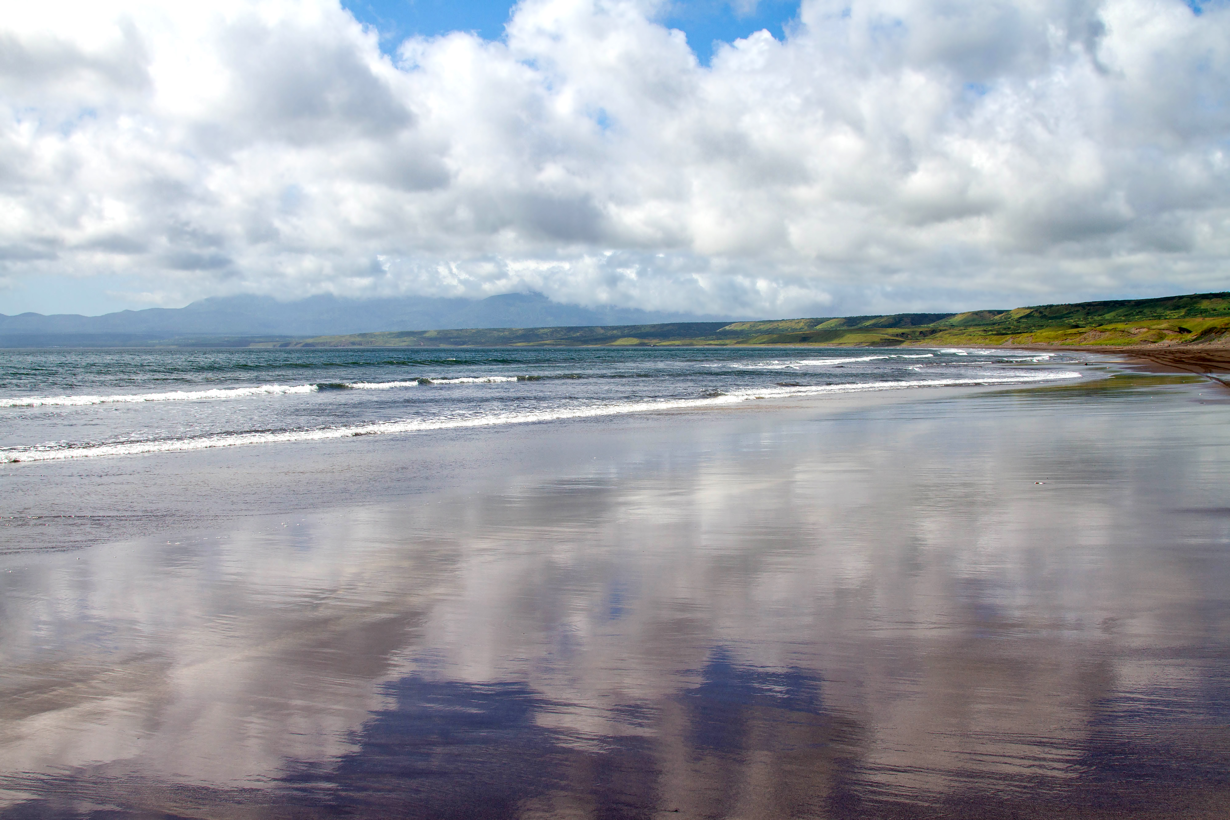 Iturup Island nature, fall 2019